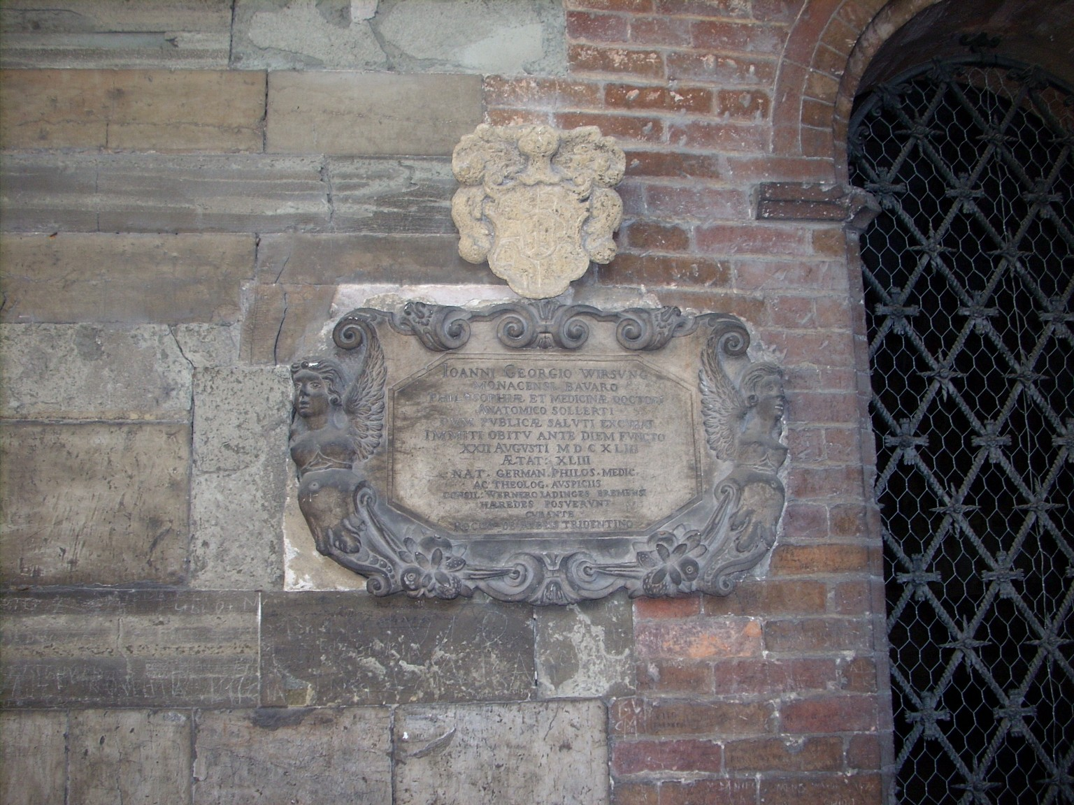 Cenotaph of Johann Georg Wirsung in the Chiostro del Capitolo (cloister of the Chapter) of the Basilica of St Anthony in Padua